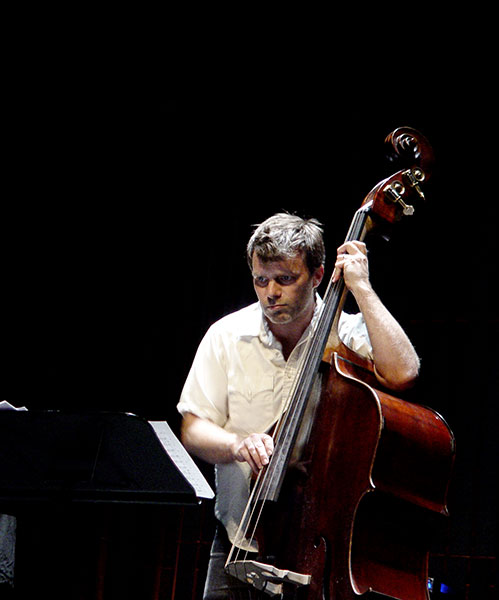 Todd Sickafoose at Reykjavik Jazz Festival 2015